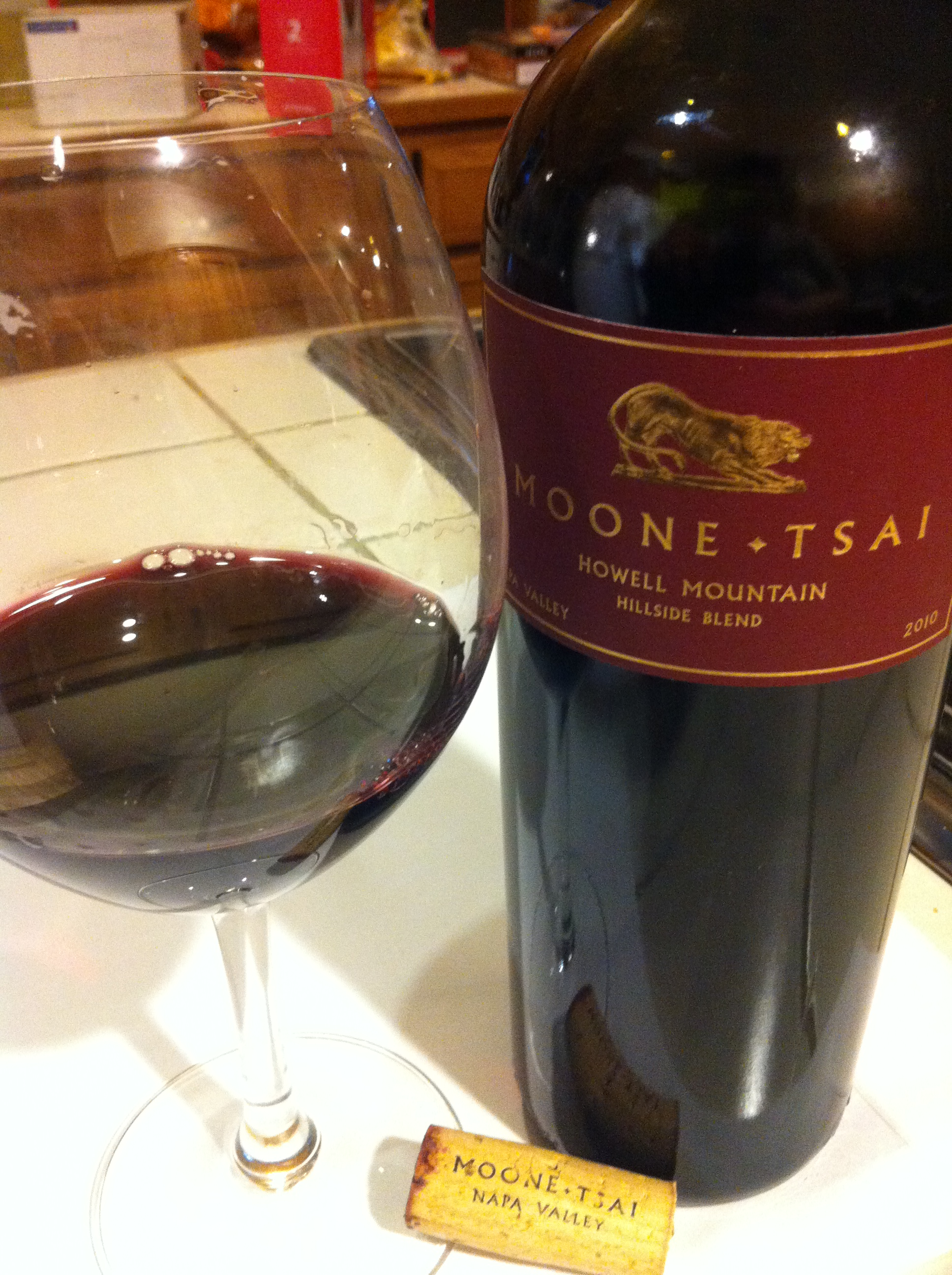 California red wine from the Howell Mountain AVA of Napa Valley made by winemaker Phillippe Melka